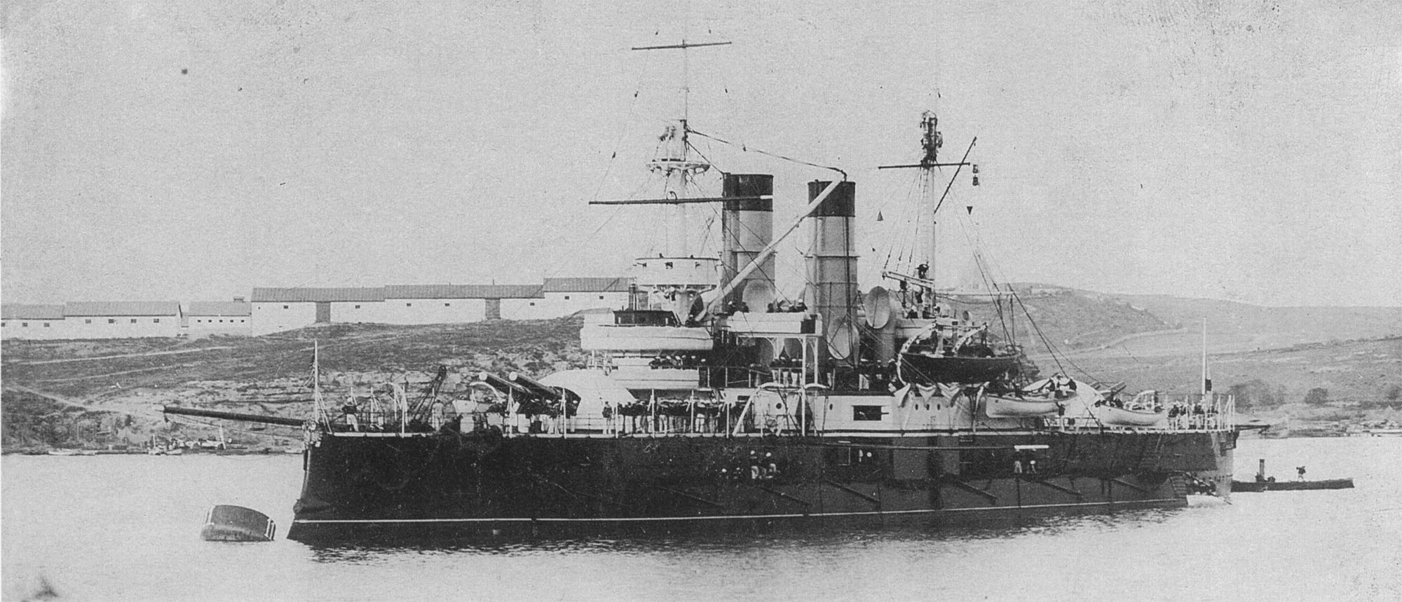 The Imperial Russian battleship Dvenadtsat' Apostolov in Sevastopol.